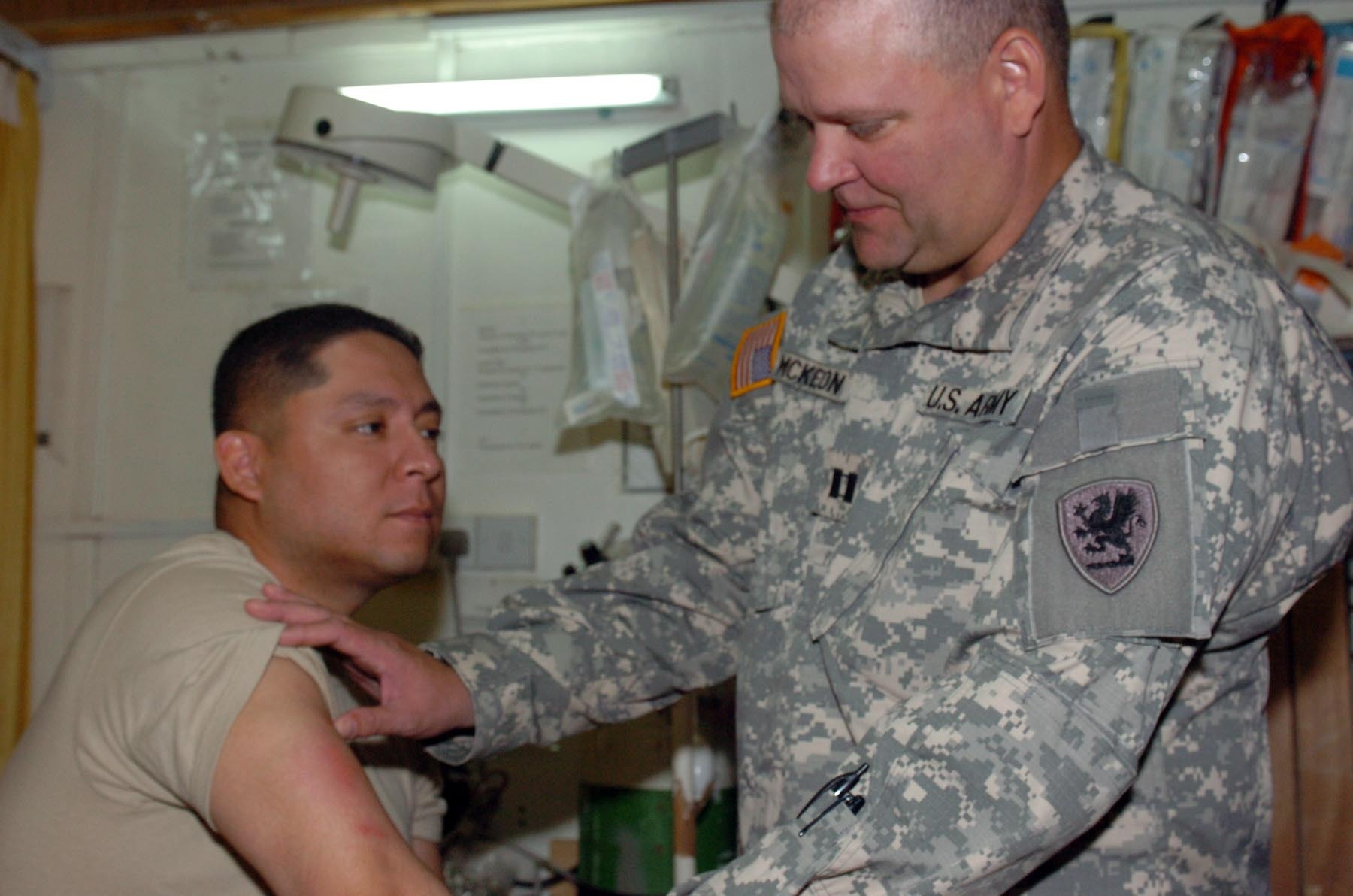 Capt. Brian McKeon examines insect bites on a Soldier's arm during sick call at the Golby Troop Medical Clinic on Camp Victory in Baghdad, Iraq. (Photo by Maj. Bobby Hart, TF3 MEDCOM Public Affairs)